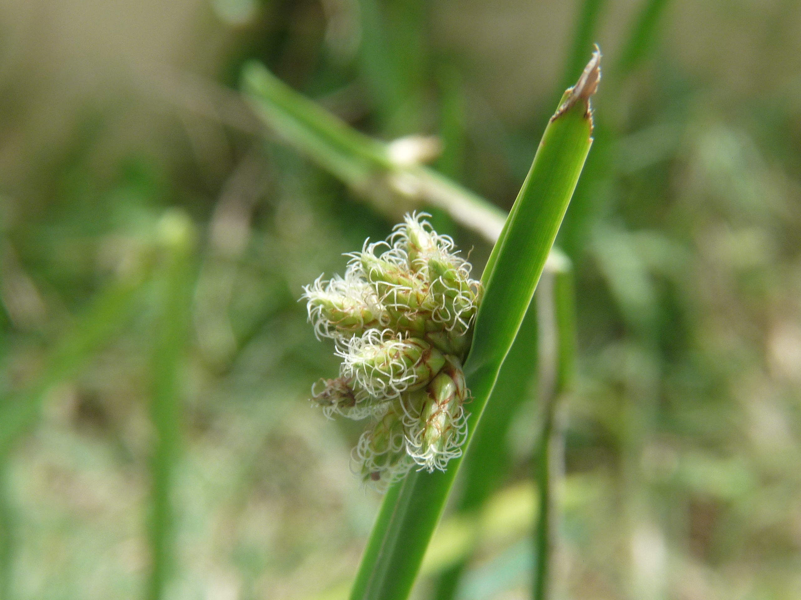 Schoenoplectus triangulatus (Scirpus triangulatus)